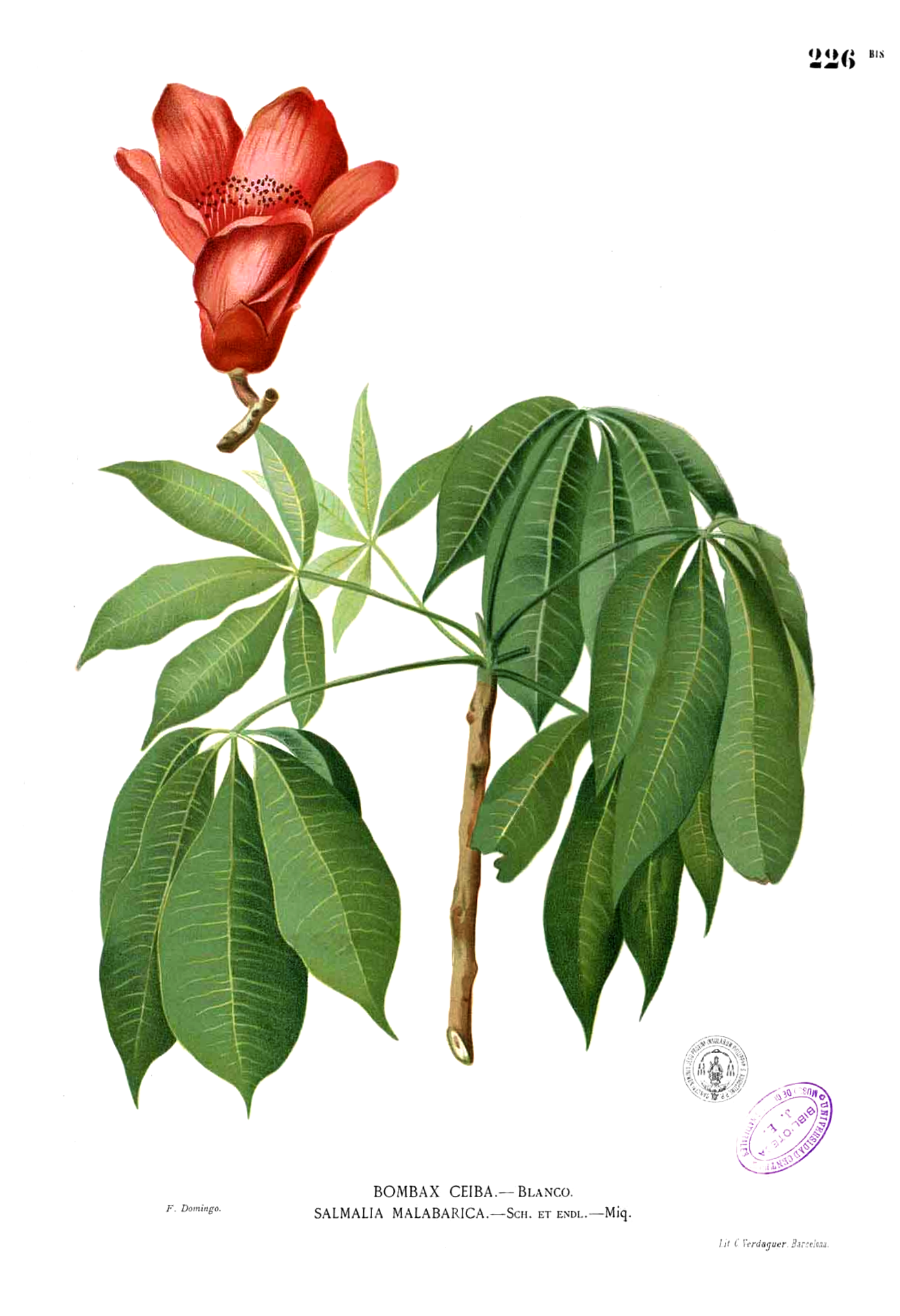 Plate from book